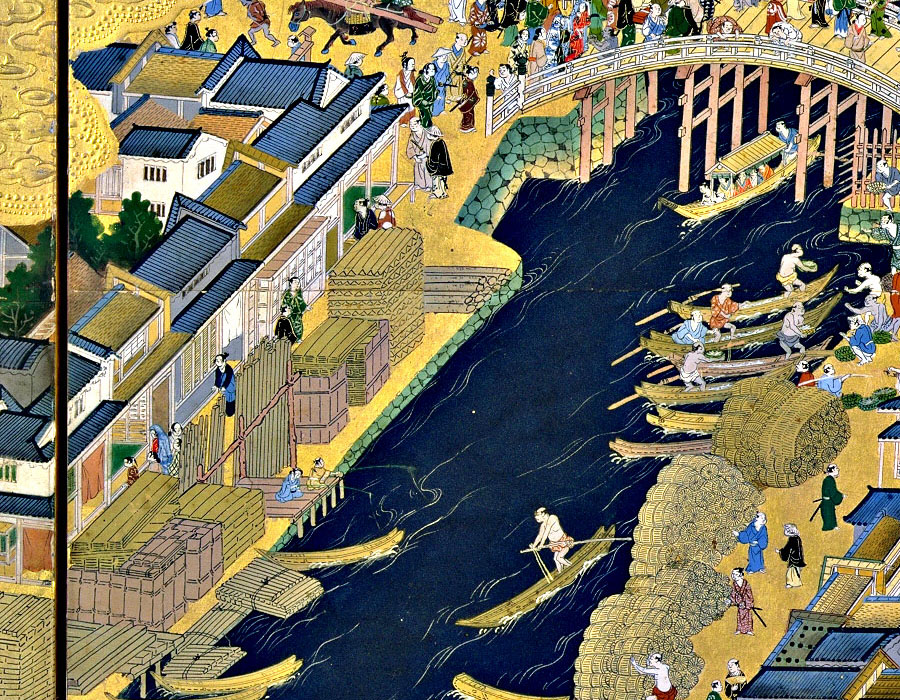 BOTTOM OF SECOND PANEL, Left Screen (Nihonbashi Bridge, Nihonbashi Kosatsuba (notice board), Koamicho, Merchant shops in Edo (a fish market in Moto Odawaracho), Riverside in downtown Edo (unloading rice)). "View of Edo" (Edo zu) pair of six-panel folding screens (17th century).